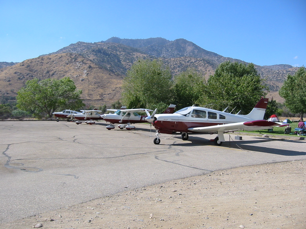 Mount San Antonio College Flying Team aircraft rests at Kern Valley Airport during fall training 2002. Photographed by Robert Rogus